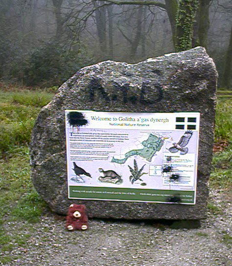 Entrance to Golitha Woods. Entrance stone showing the rare life that can be found in the woods, and some popular walks. (Vandalised because certain Cornish Folks don't like to see 'English Heritage' on Cornish signs.)